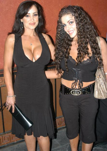 Lisa Ann and Victoria Valentino at XRCO Awards 2007